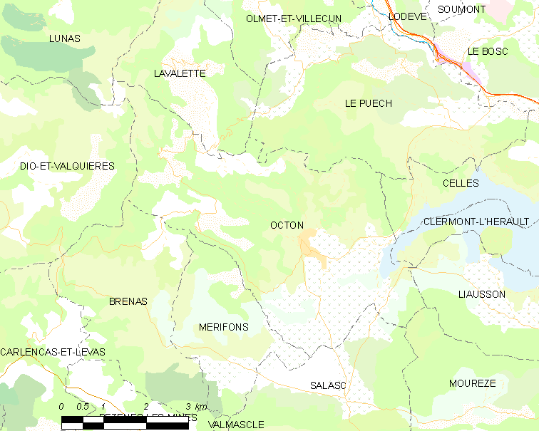 Map commune FR insee code 34186.png - Octon